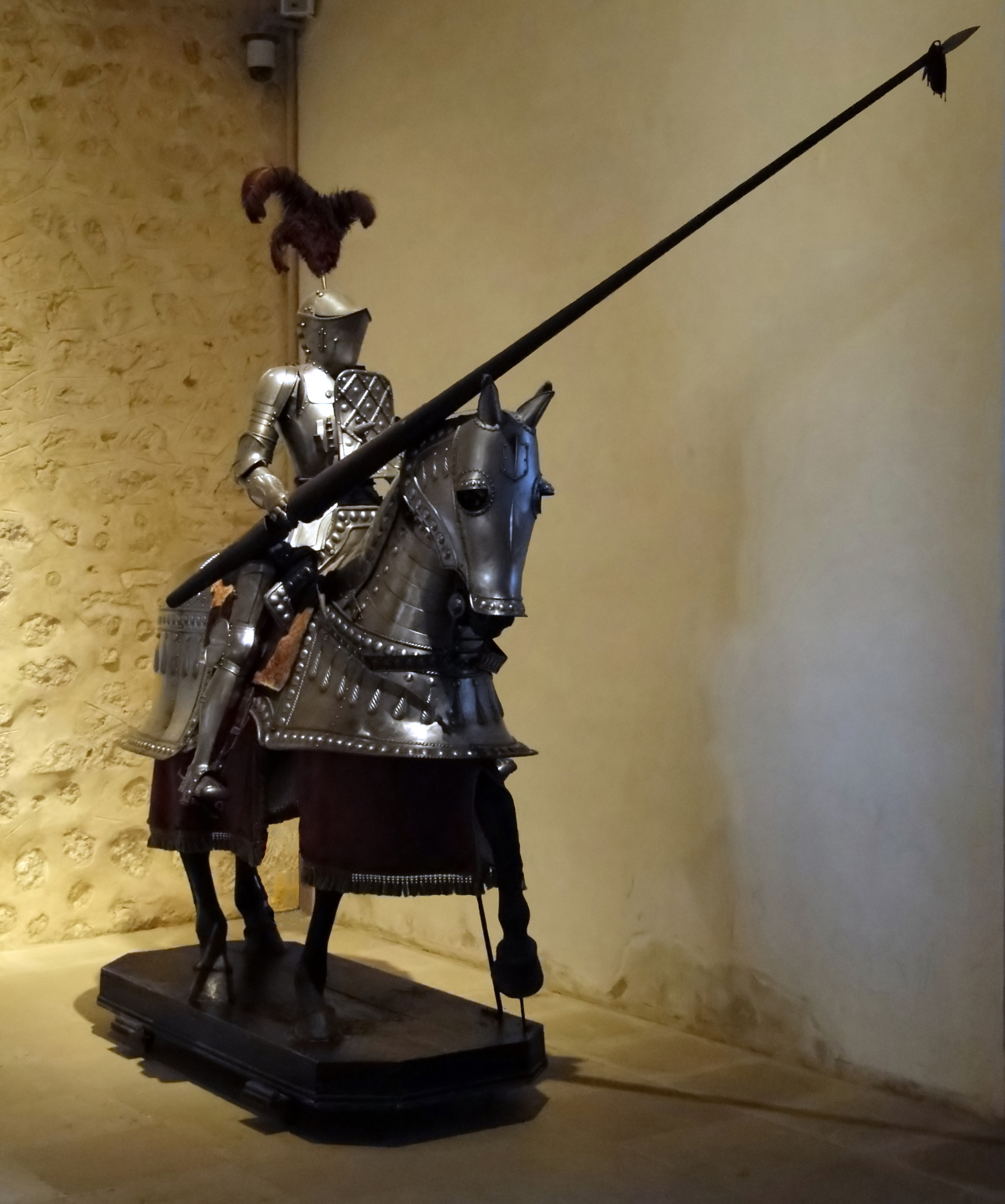 Horse armour in the Hall of the Old Palace of the Alcázar of Segovia, Spain